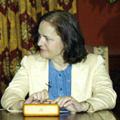 Ignacia de Loyola de Palacio y del Valle Lersundi, a minister in the Spanish government from 1996 to 1998, and a member of the European Commission from 1999 to 2004.